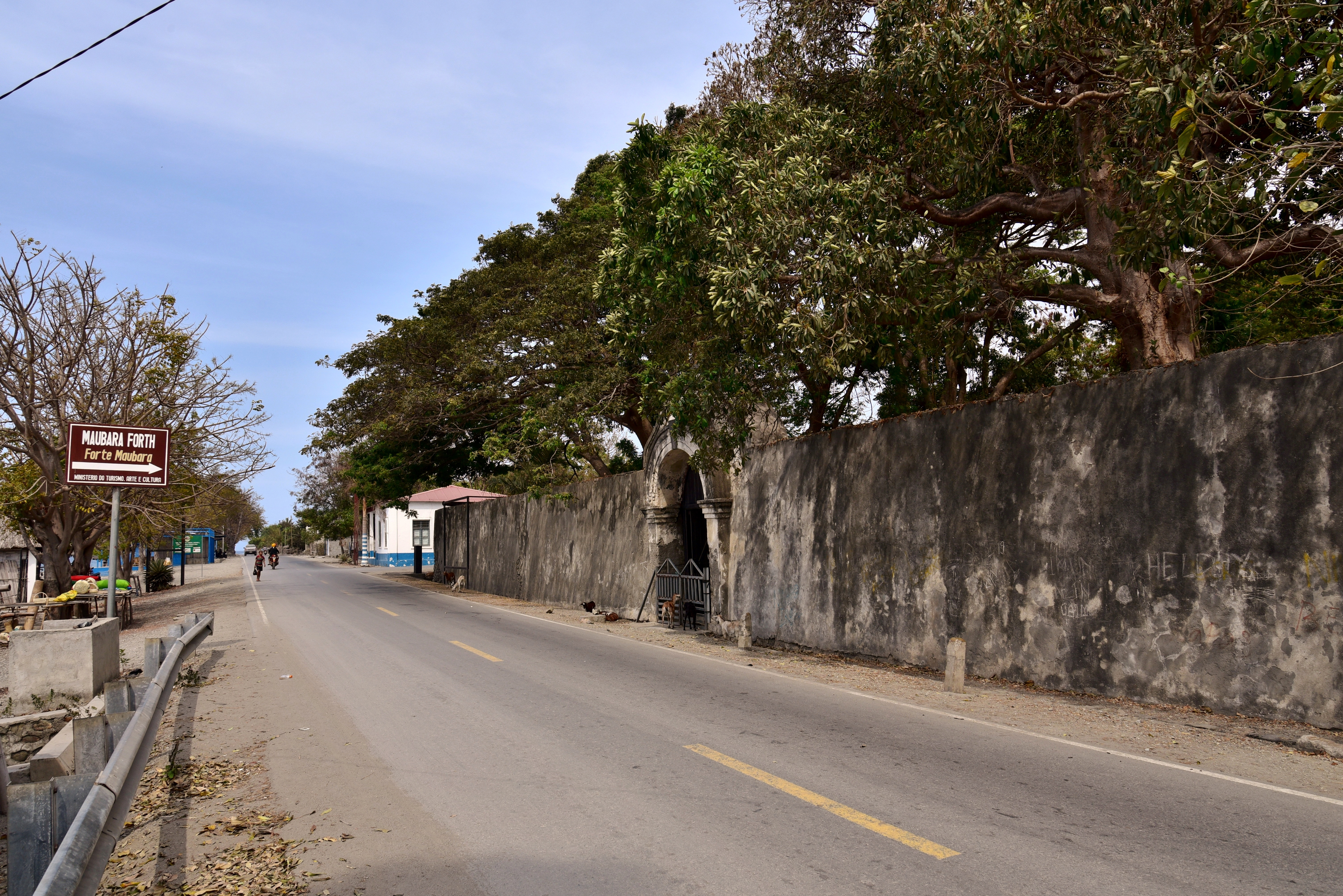 View of the fort in the village of Maubara, East Timor